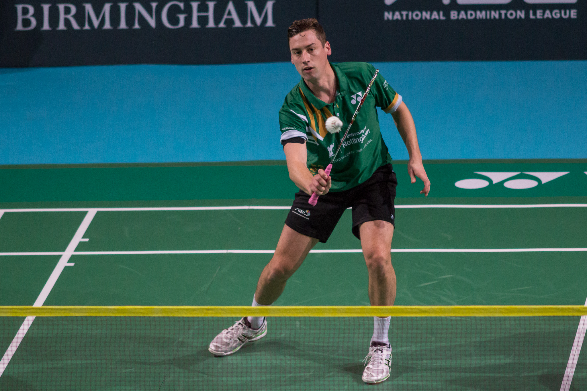 NBL Badminton player Kristian Roebuck during a match in the Great Hall, University of Birmingham